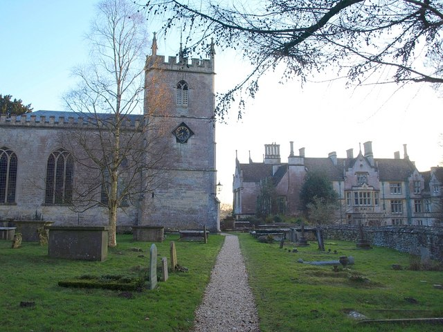 Church and school, Alderley. On the left is St. Kenelm's church, with a mid-C15 tower . On the right is 311944, dating from 1860 .